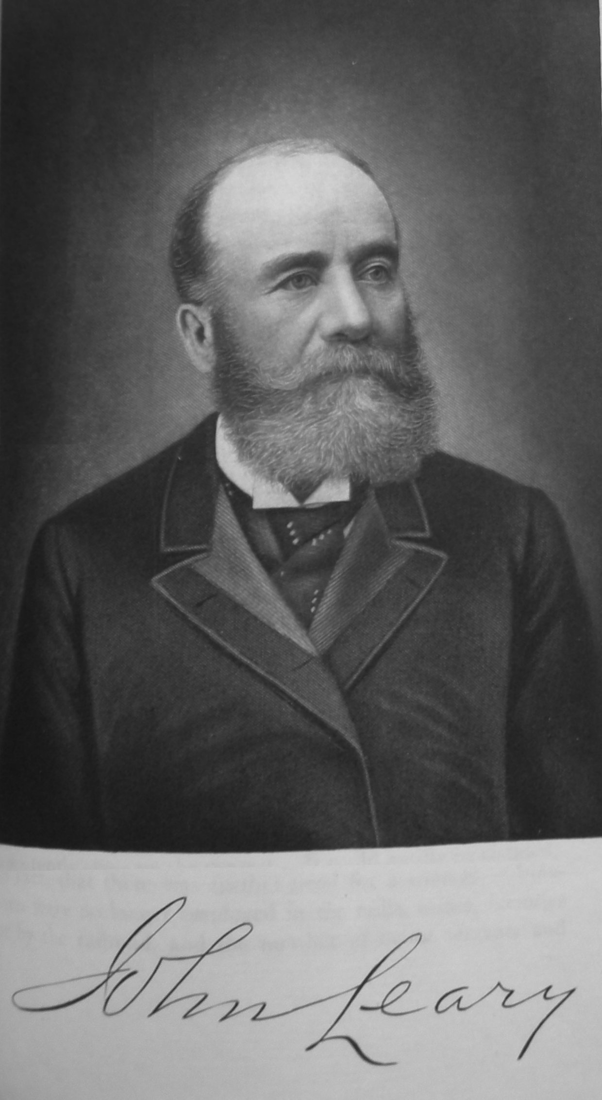 Photo and signature of John Leary. Transparent overlay (not shown) says: Born at St. Johns, New Brunswick, in 1836, and during his earlier years he was extensively engaged in the manufacture of lumber and also a dealer in general merchandise as St. Johns. He came to the coast in 1869 and settled in Seattle. In 1871 he was admitted to the bar and was engaged in active practice until 1883, when he retired. In 1884 he was mayor of the city. In 1872 he took a leading part in the explorations of the coal measures in King County, and in opening and developing some of its principal mines. During the remainder of his life he was actively connected with many of the most important enterprises having for their object the development of Seattle and the State.